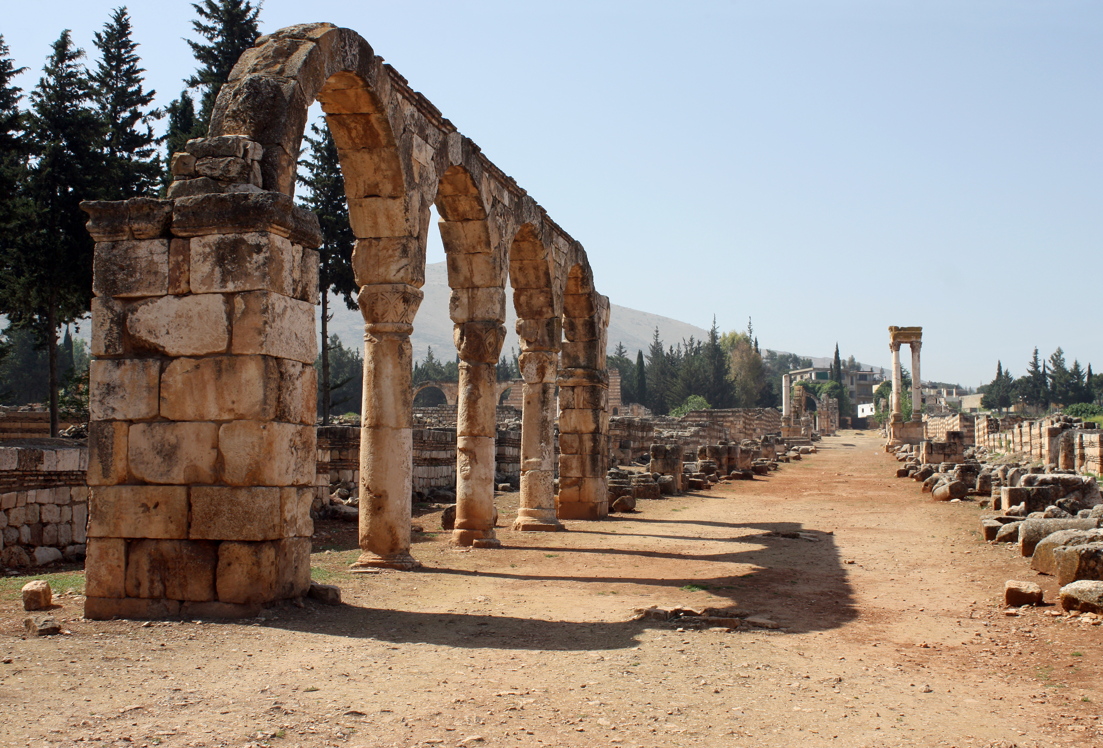 The cardo of the Umayyad city of Anjar, seen from the north.